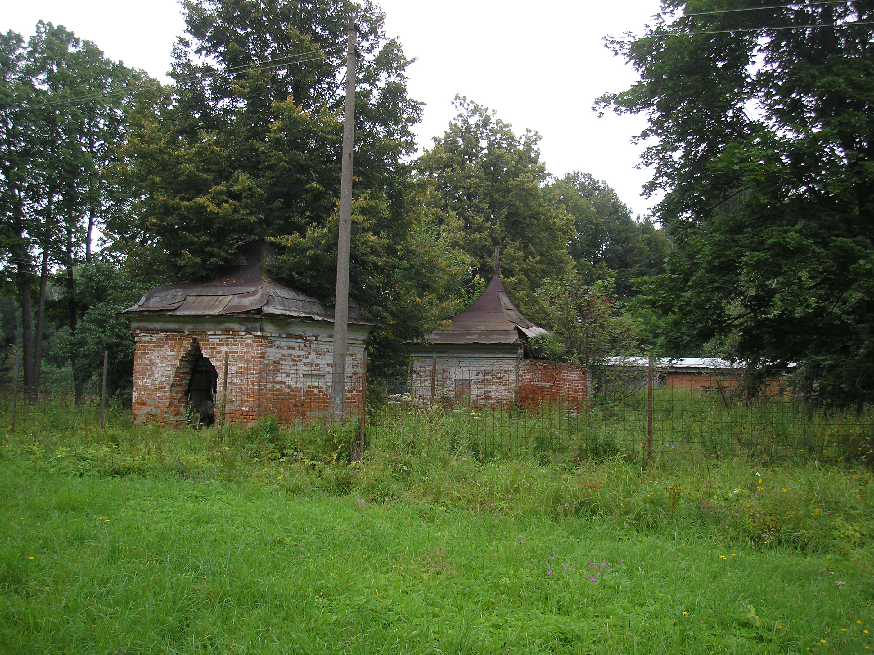 Church of the Kazan Icon of the Mother of God, Lamishino, Istra district, Moscow region. Chapel